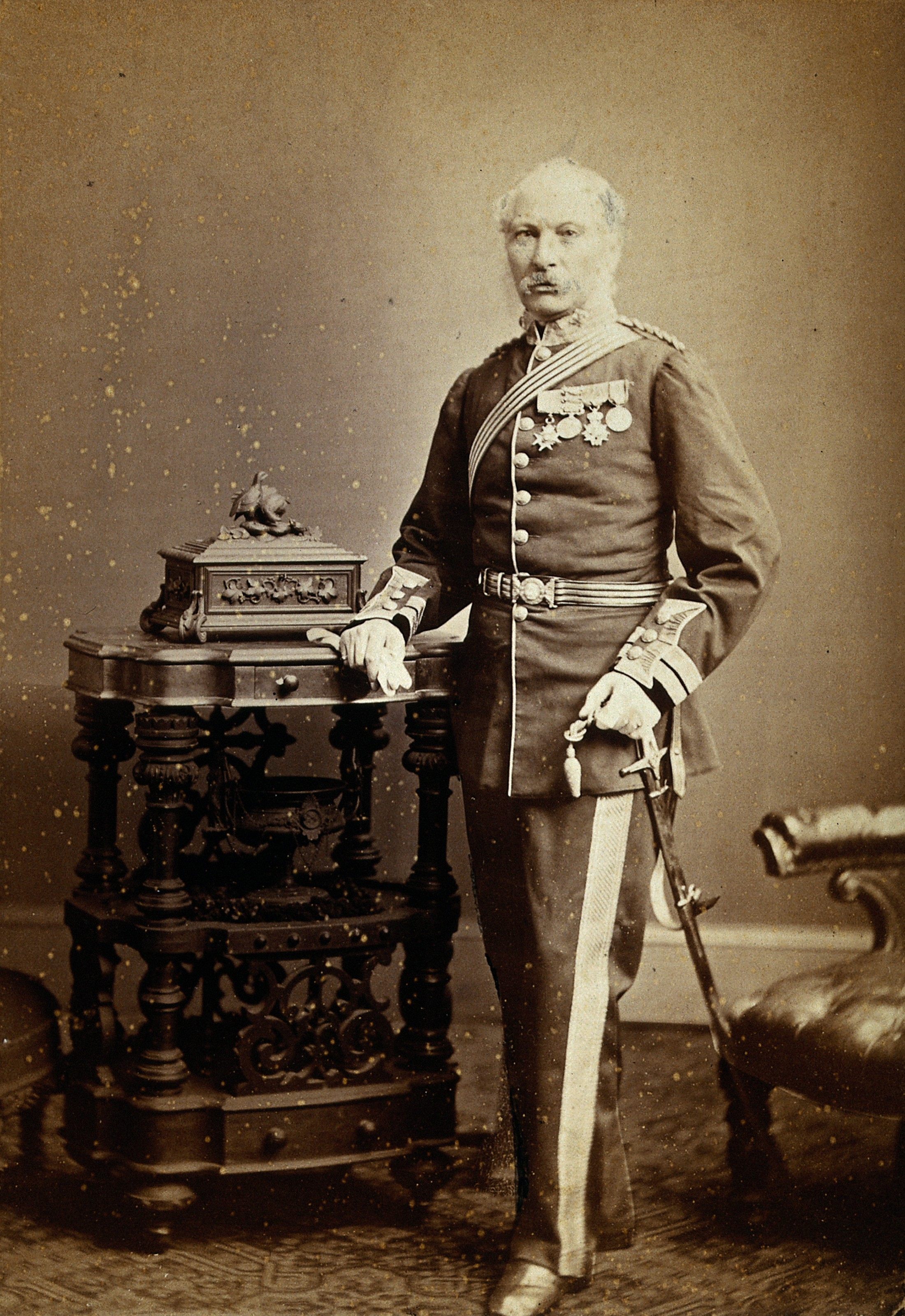 Sir Thomas Longmore. Photograph by Adams & Stilliard, 1877. Iconographic Collections Keywords: portrait photographs